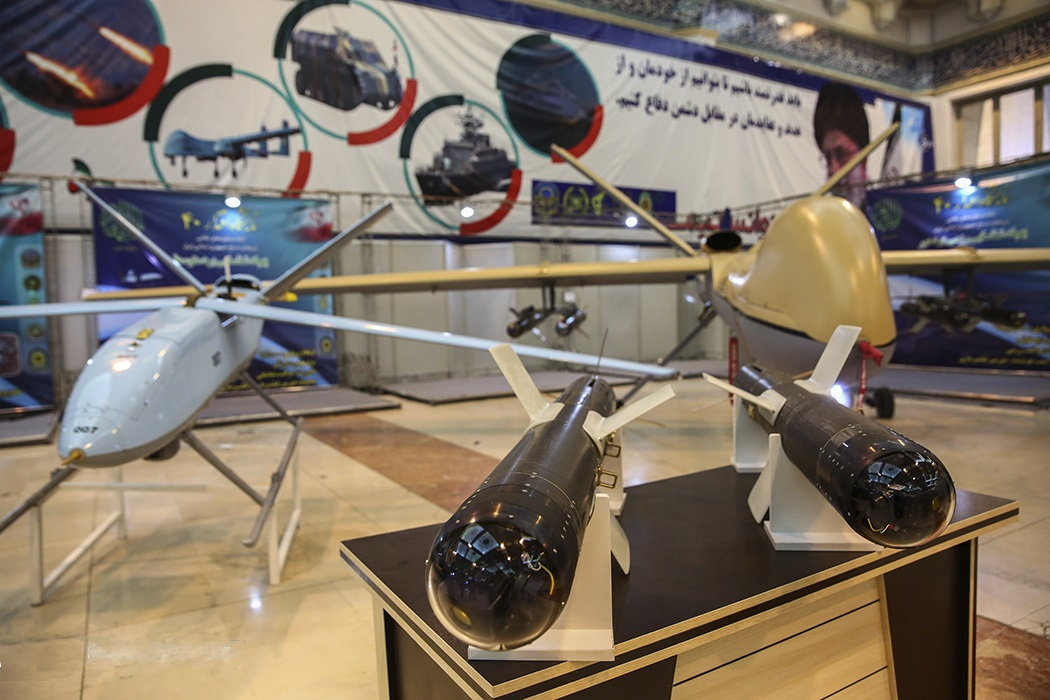 Shahed 121 UAV on the left, Shahed 129 UAV with new radome on the right, and two Sadid guided bombs (AKA Sadid-345) in the foreground. Eqtedar 40 defence exhibition in Tehran. See here for an ID.